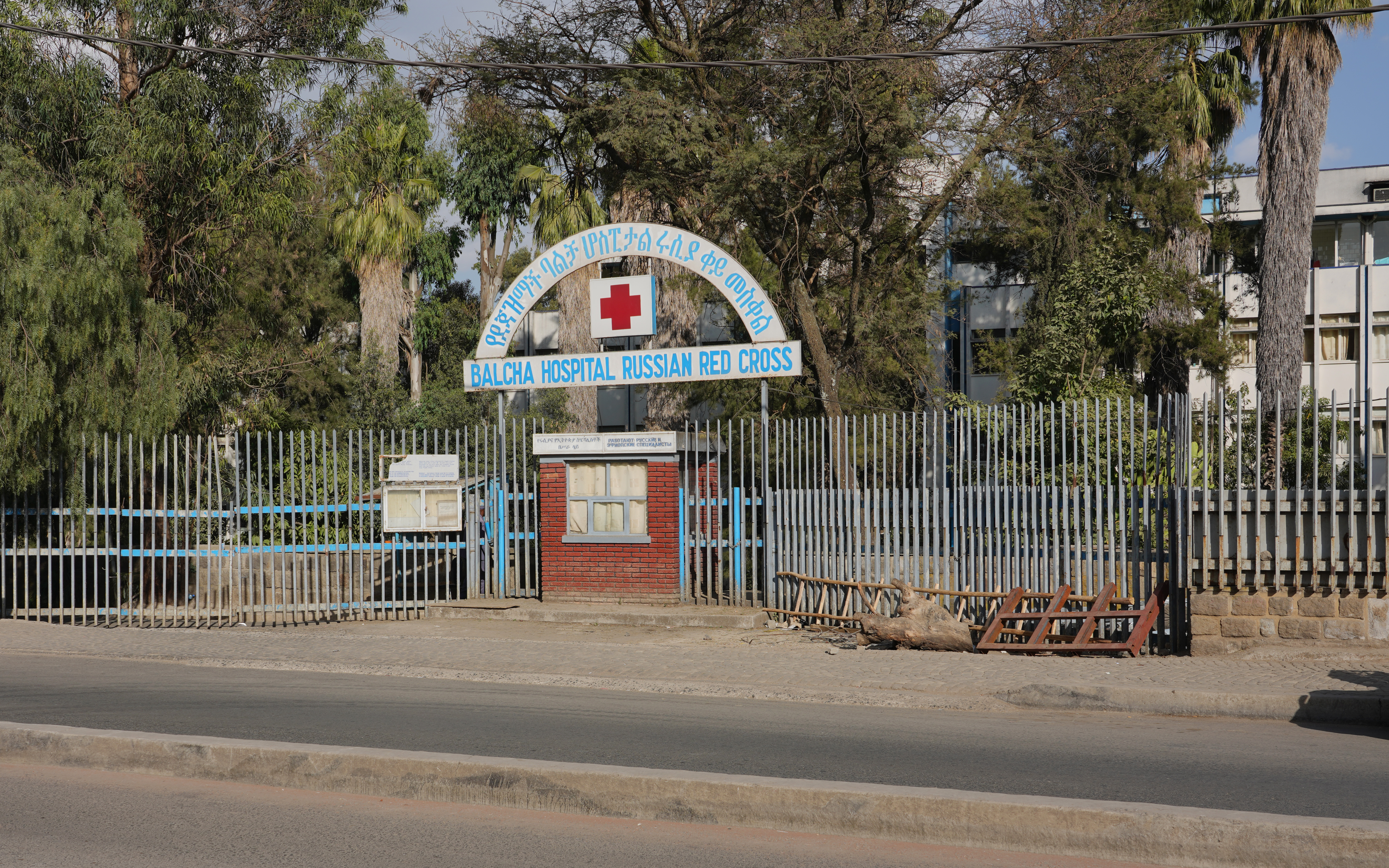 Balcha Hospital of Russian Red Cross in Addis Ababa, Ethiopia